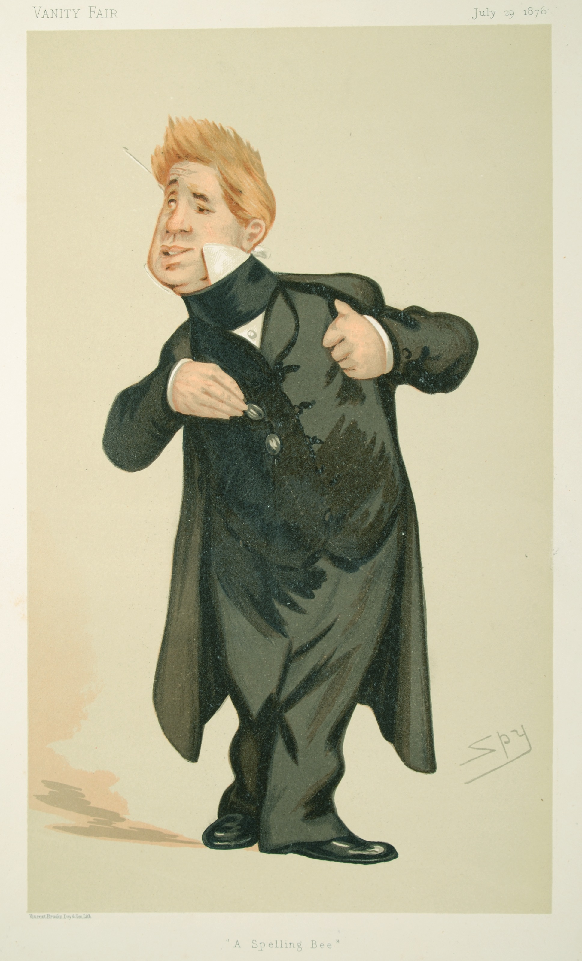 Men of the Day No.132: Caricature of Mr John Laurence Toole. Caption reads: "A Spelling Bee"